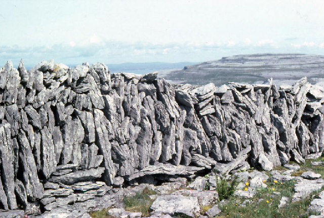 Green road wall. The stone walls of The Burren are wonderful. The best are the work of craftsmen, but their dating is impossible. This is one of the finest examples I know on the green road halfway between Formoyle and Faunarooska. Dobhach Bhrainin in the distance.